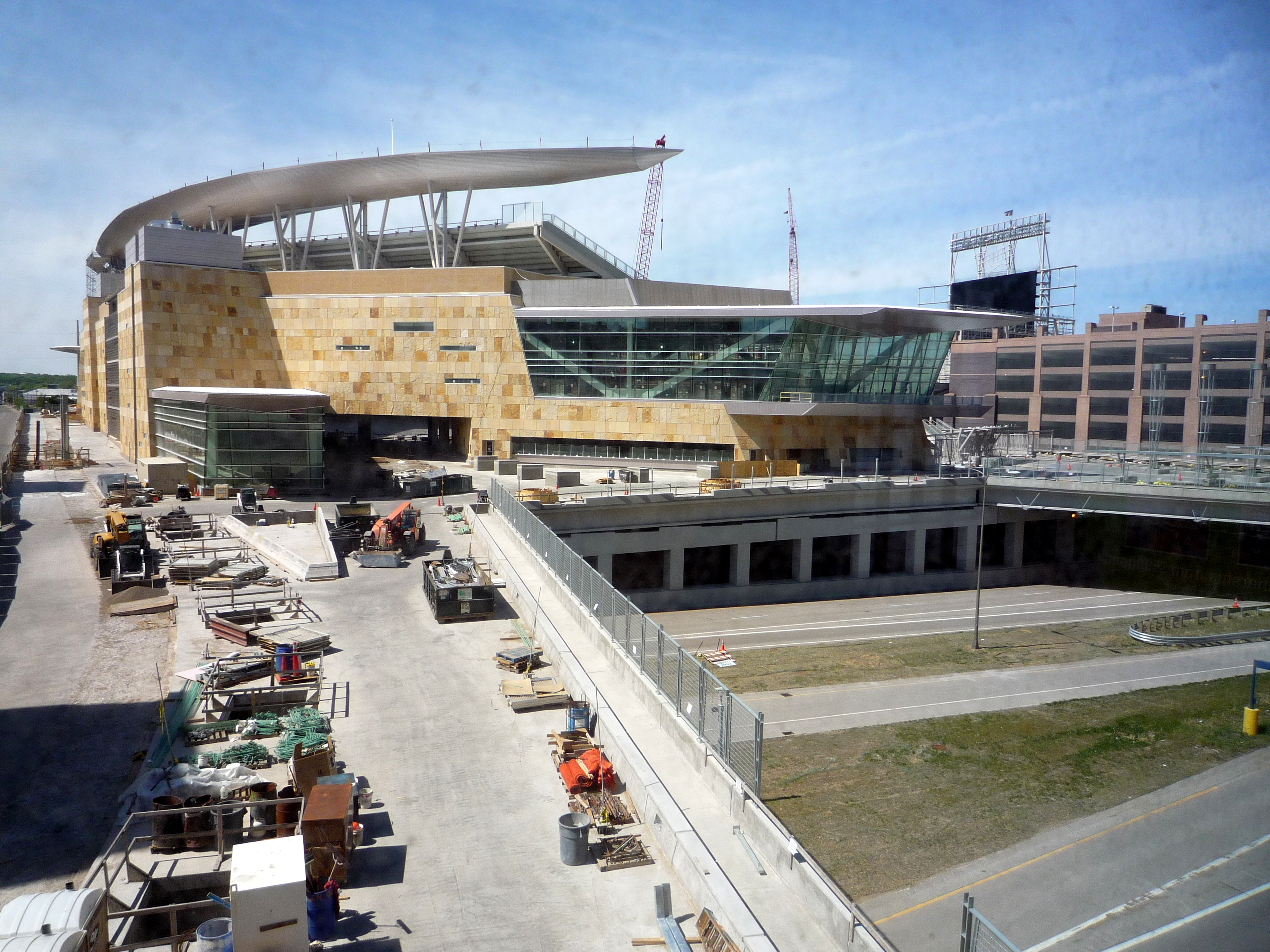 The site of the under-construction Target Field, 733 days after construction commenced on May 21, 2007. This photo was taken 733 days after this photo and 378 days after this photo --both from the exact same location/position.